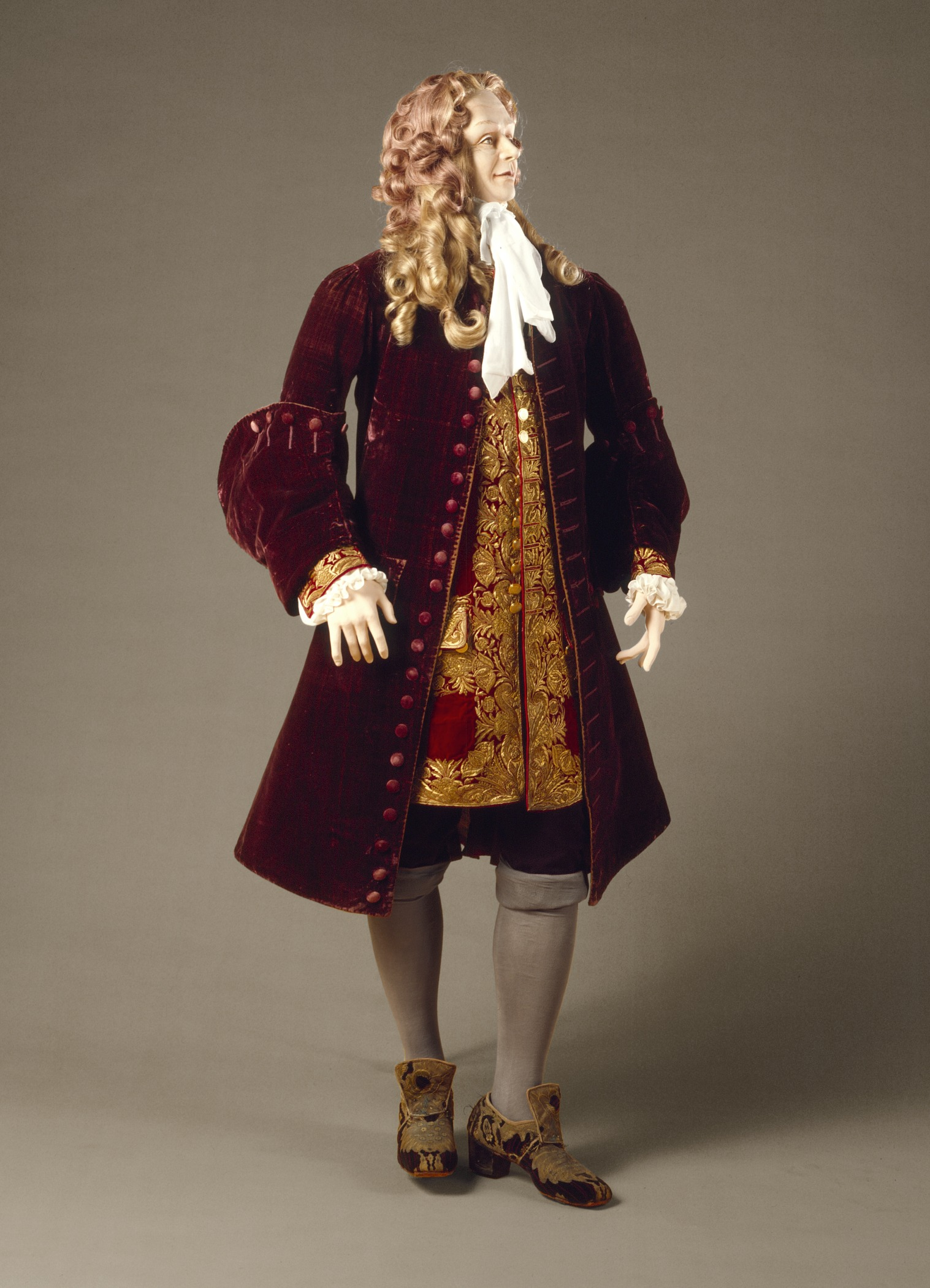 Probably German, circa 1720-1730 Costumes; outerwear Cut silk velvet Los Angeles County Fund (62.6.2) Costume and Textiles